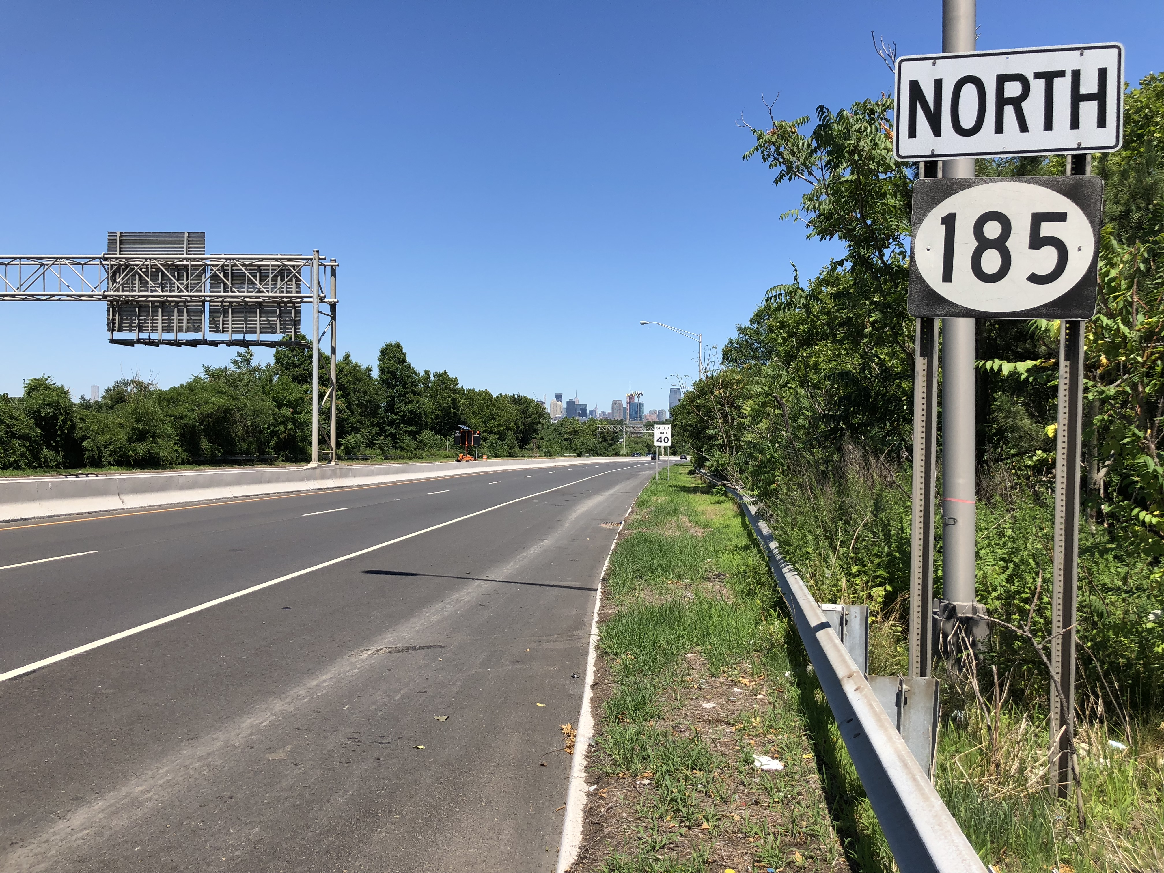 View north along New Jersey State Route 185 (Caven Point Road) just north of New Jersey State Route 440 in Jersey City, Hudson County, New Jersey